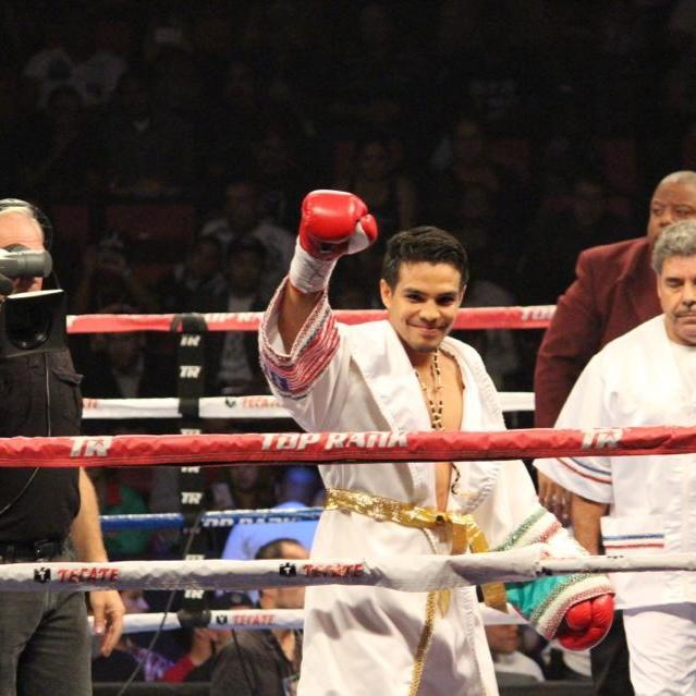 Photo